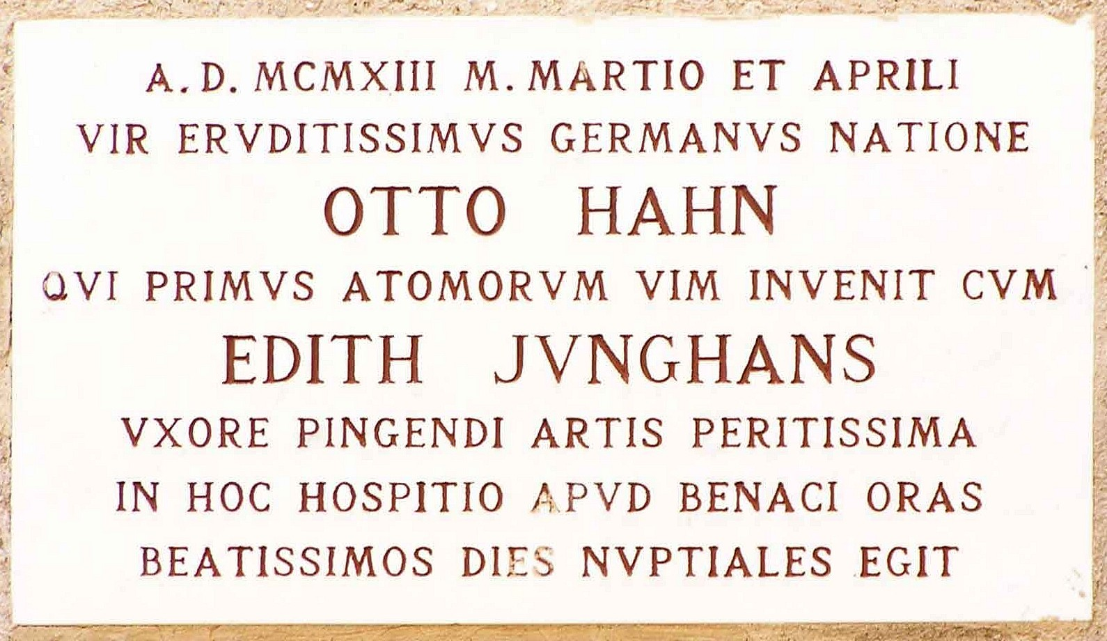 Marbleplaque at the Locanda San Vigilio, which refers to the honeymoon of Otto Hahn and his wife Edith Junghans in March and April 1913